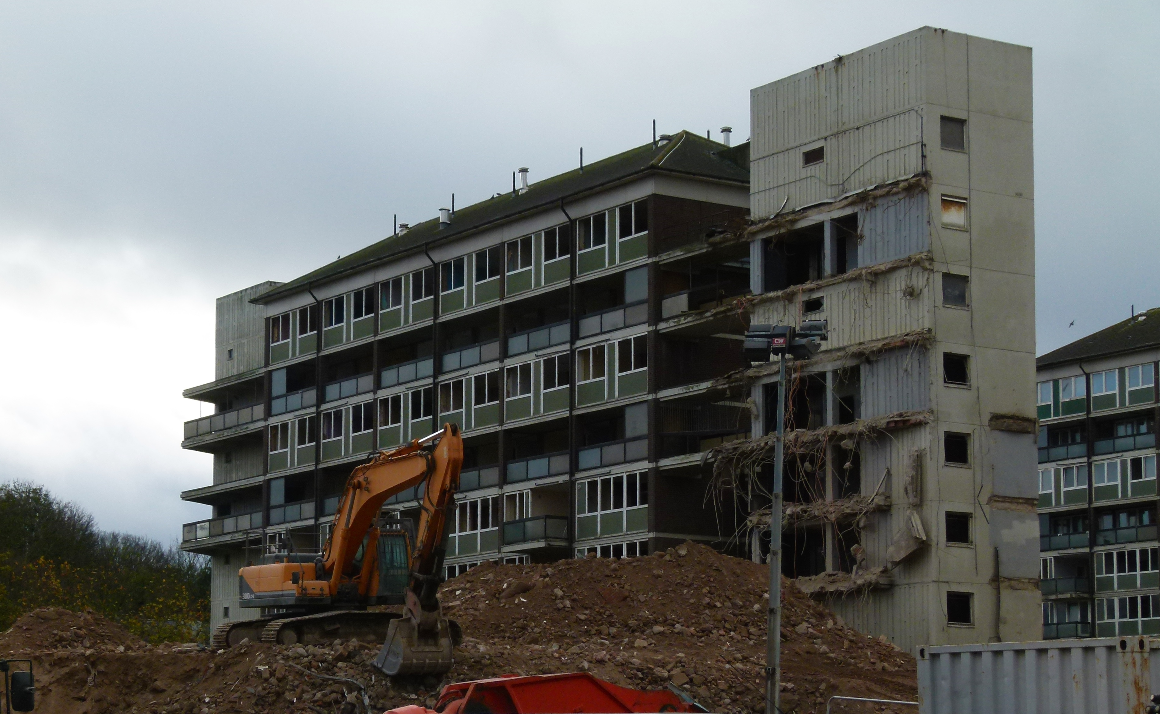 View from Sandy Hill Lane of the demolition of the Connaught Estate in central Woolwich, South East London.